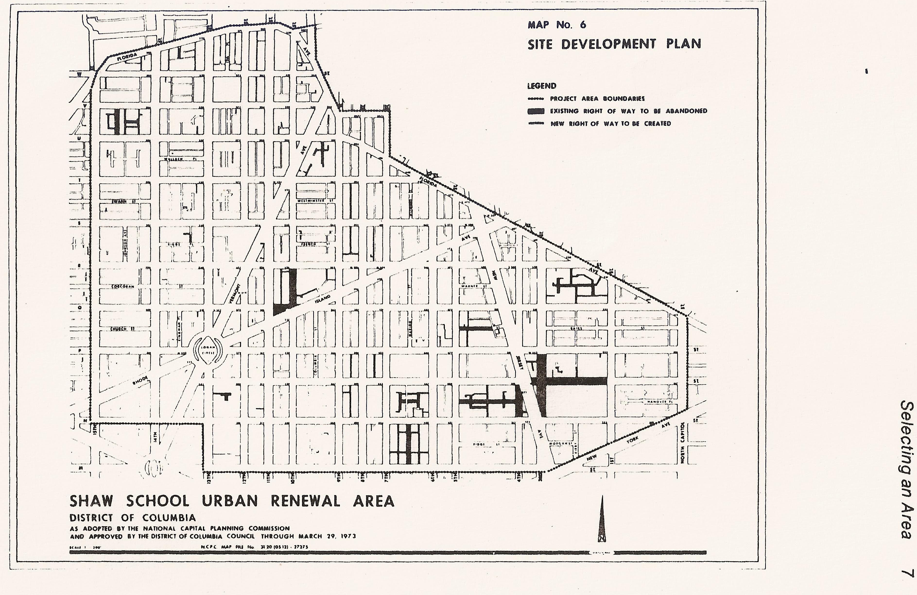 Shaw School Urban Renewal Area map 1973